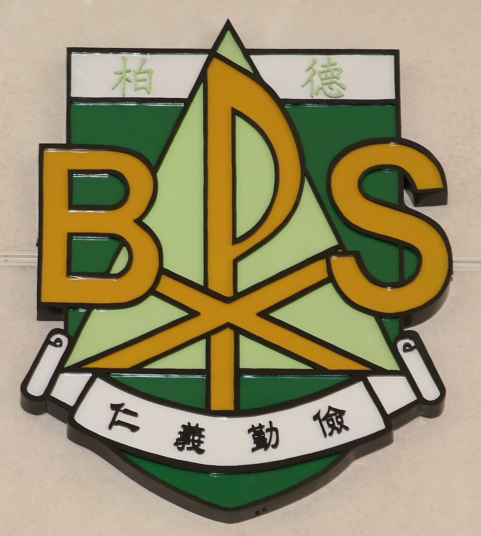 Bishop Paschang Catholic School badge